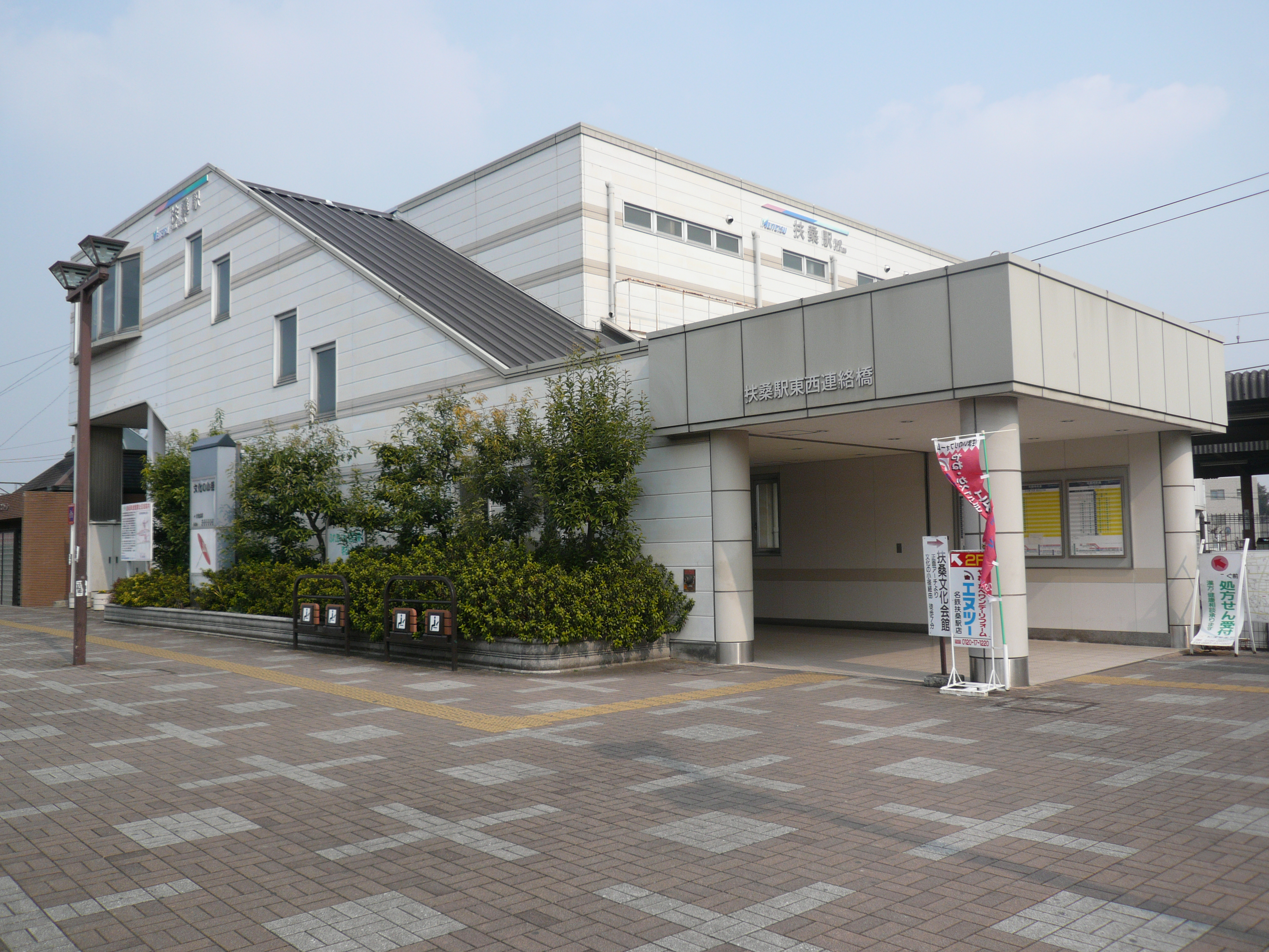 Meitetsu Fuso Station.